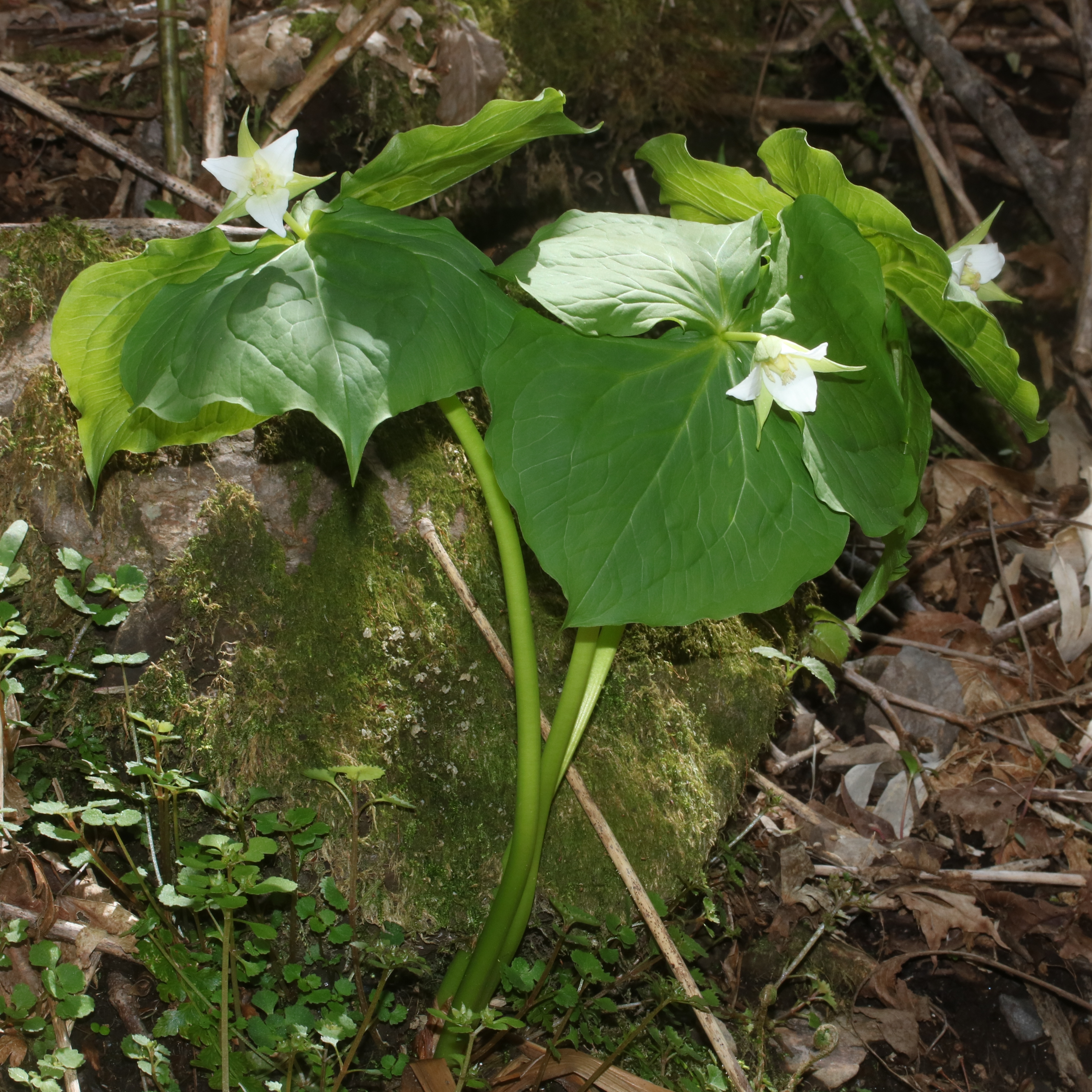 Trillium tschonoskii in Mount Ena, Kiso Mountains, Nakatsugawa, Gifu Prefecture, Japan.